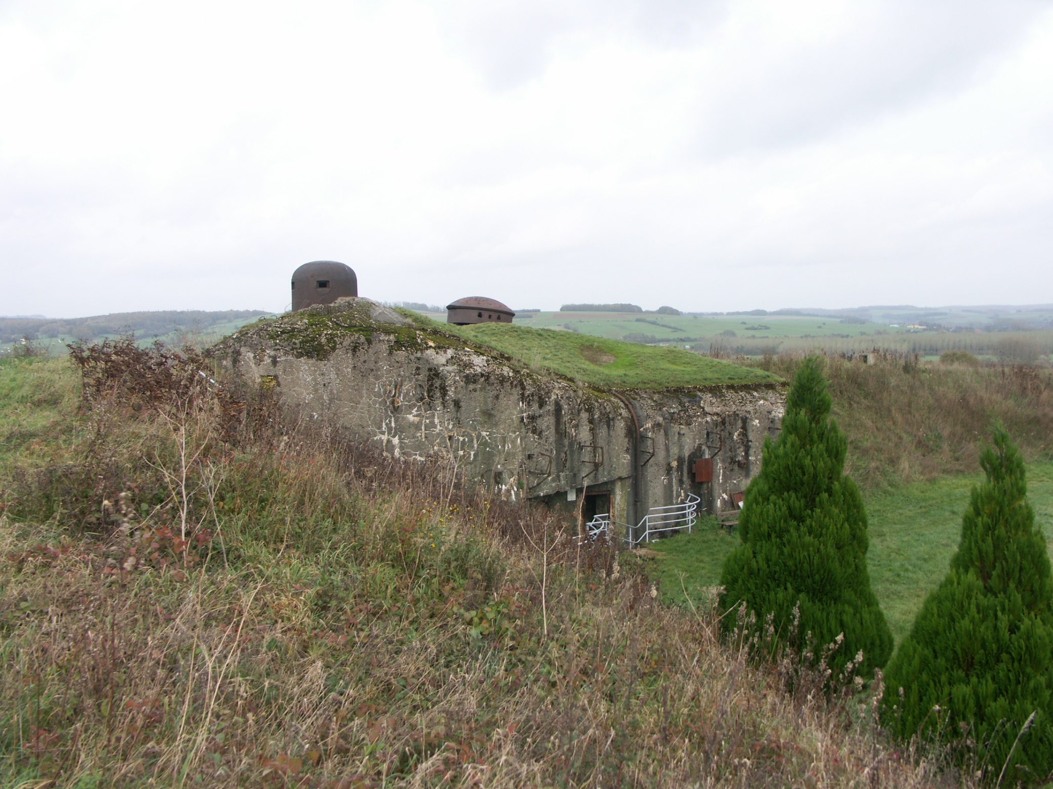 Block 2 at the work of La Ferté